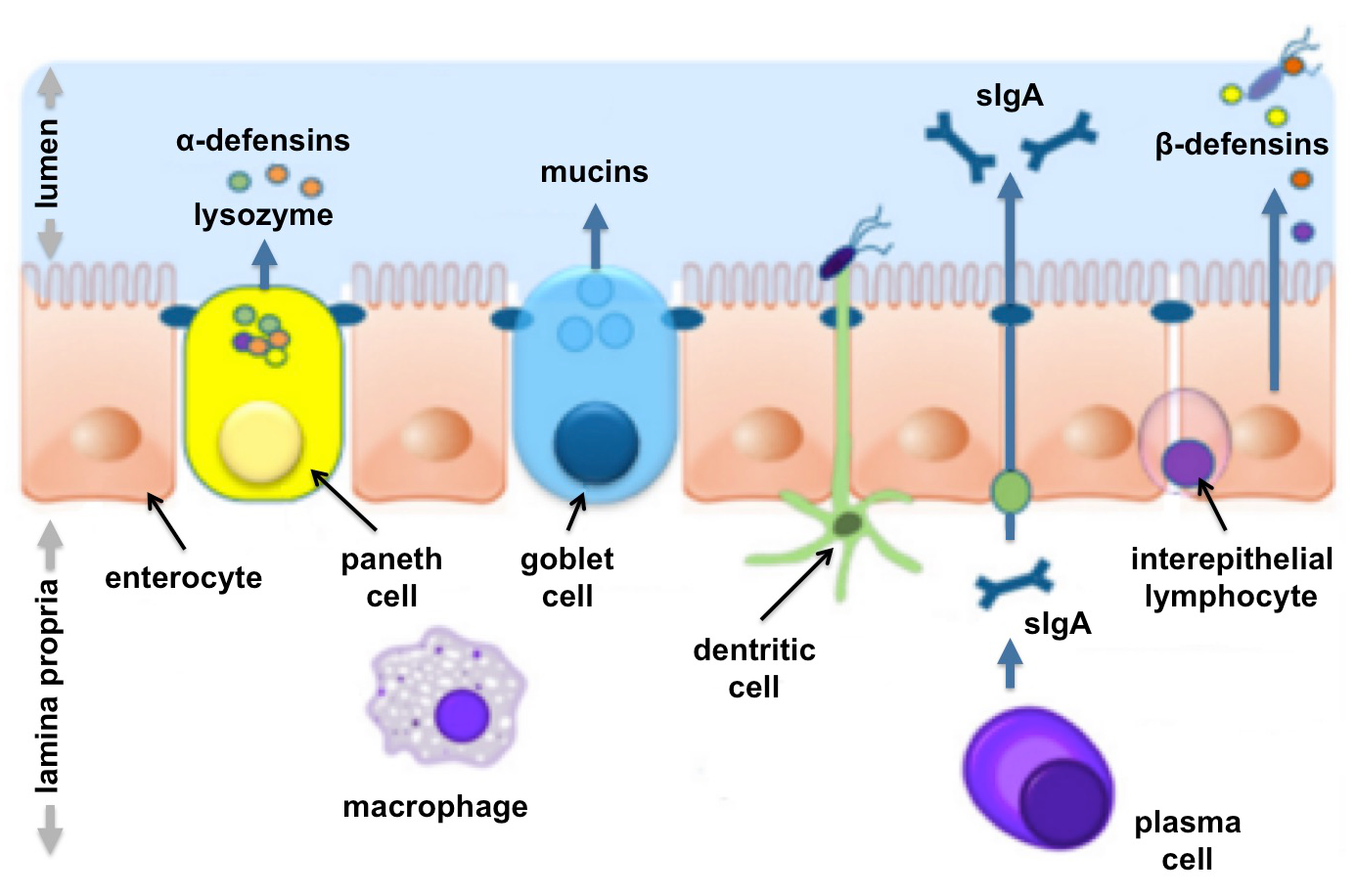 Adapted from figure 2 of "Intestinal permeability – a new target for disease prevention and therapy" Stephan C BischoffEmail author, Giovanni Barbara, Wim Buurman, Theo Ockhuizen, Jörg-Dieter Schulzke, Matteo Serino, Herbert Tilg, Alastair Watson and Jerry M Wells BMC Gastroenterology Bischoff et al.; licensee BioMed Central Ltd. 2014